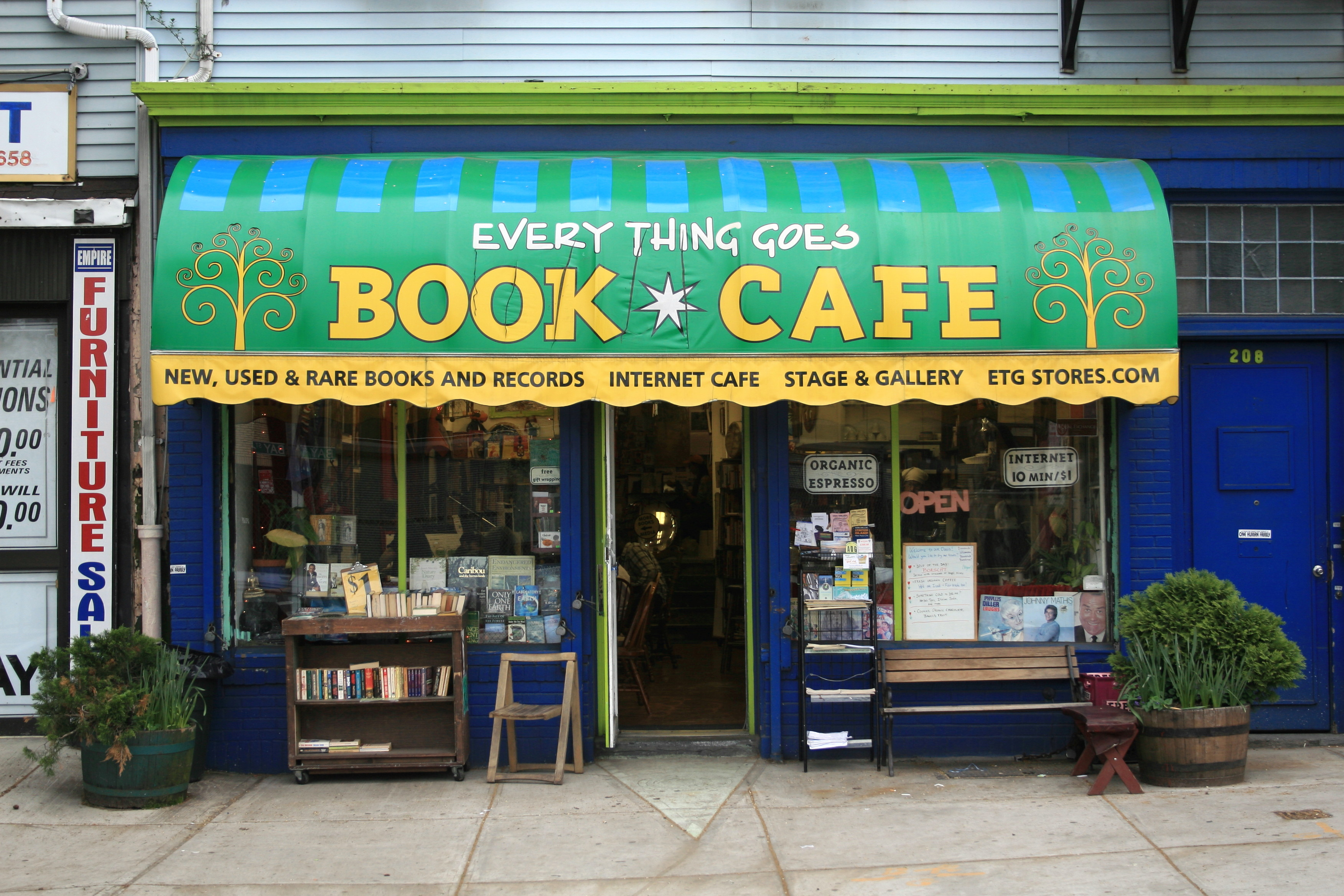 Picture of the "Everything Goes Book Cafe" located at 208 Bay Street, Staten Island, NY.